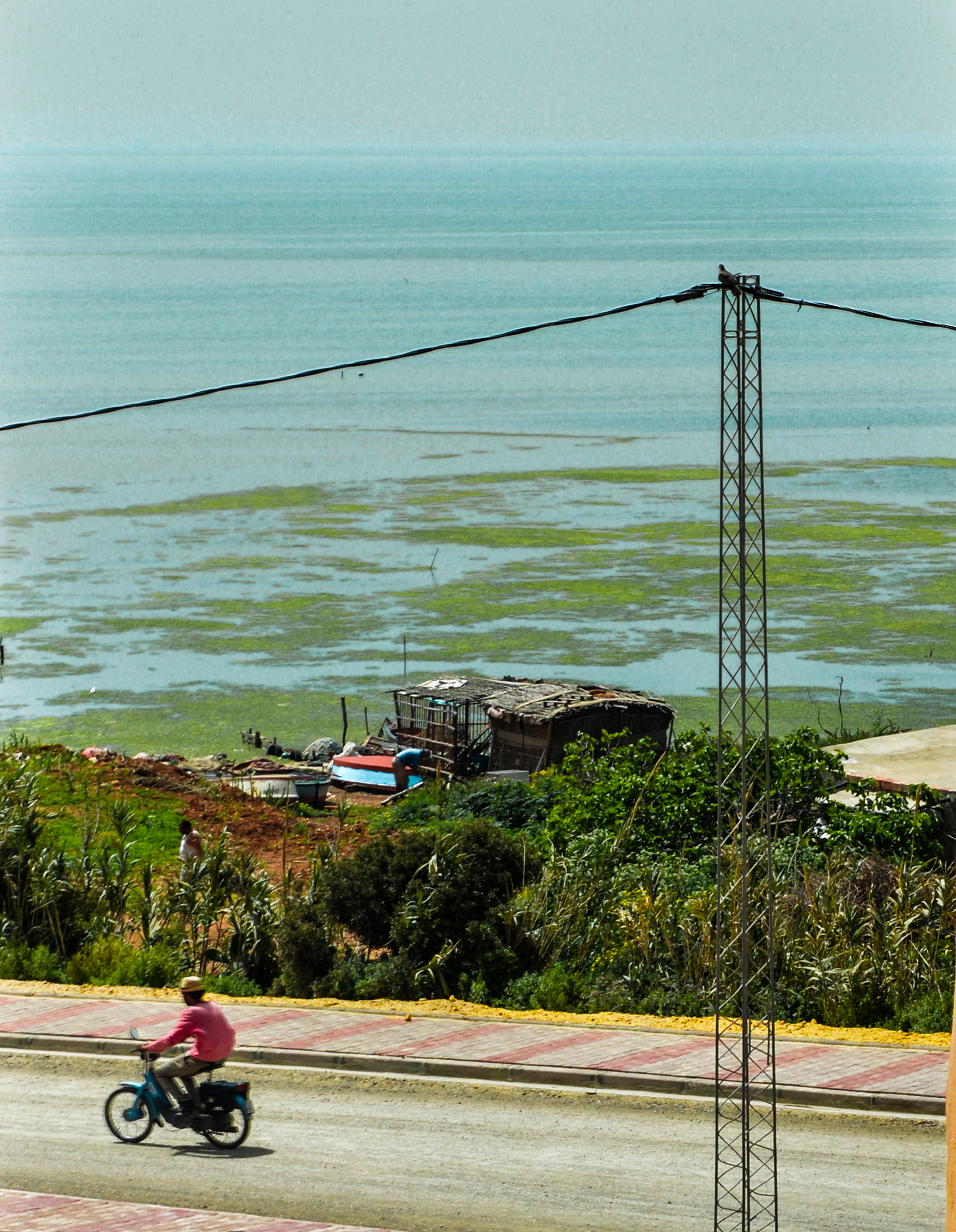 This is an image with the theme "Africa on the Move or Transport" from: Tunisia